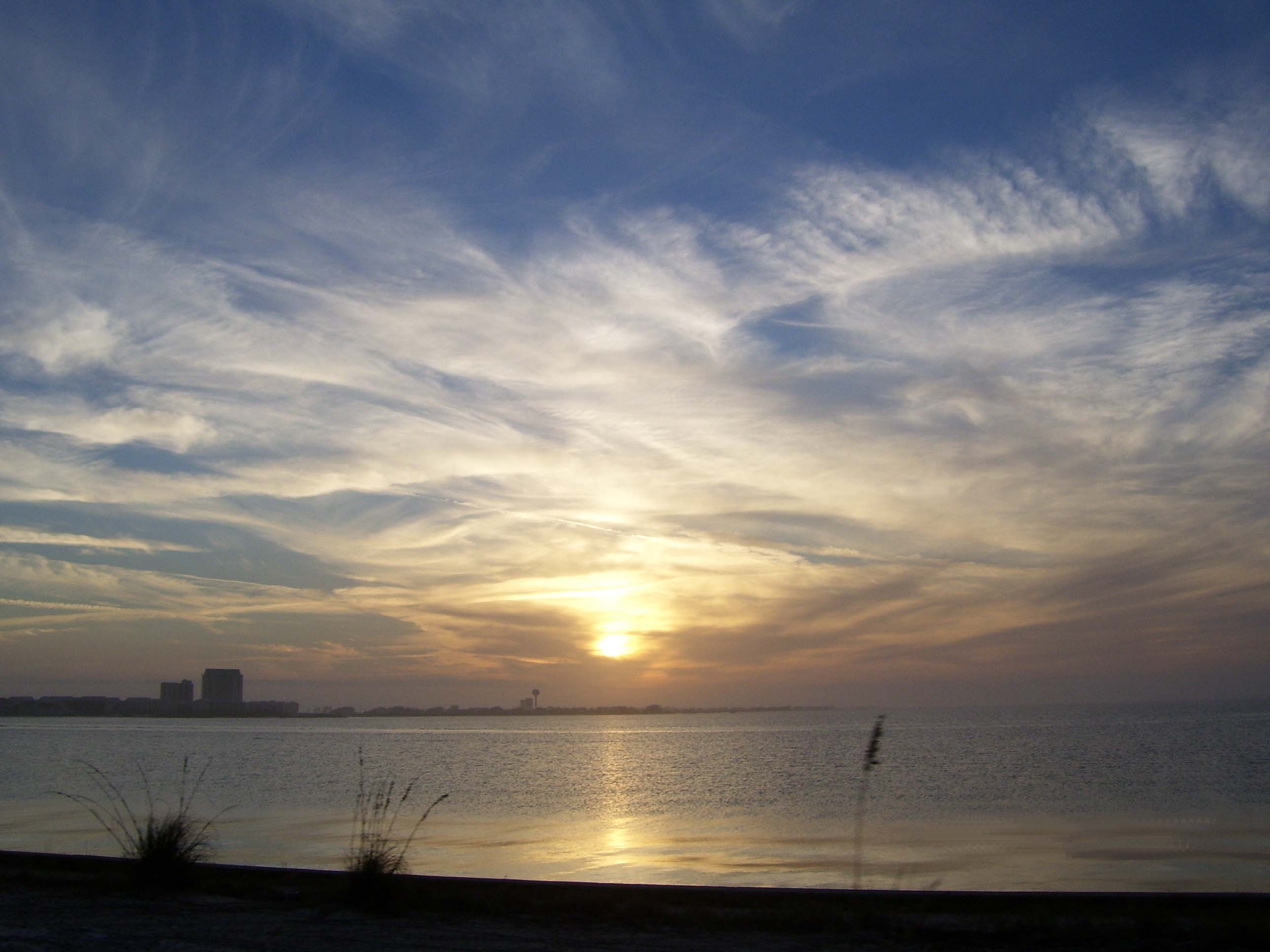 PD-US-unpublished=Navarre, Florida Beach